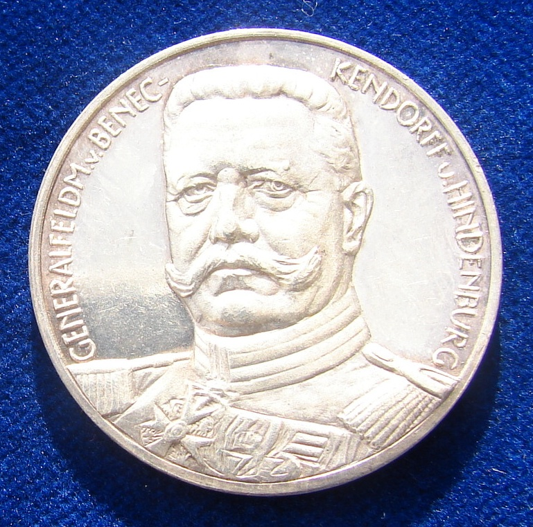 D.= 33 mm. 18.46 g Ag 0.990 Fine Silver. Hindenburg, Paul v. Beneckendorff and v. Hindenburg, Field Marshall in WW1, later President of Germany, 1847 Posen (today Poznan, Poland) - 1934 Neudeck, West Prussia. Uniformed portrait l., around: "GENERALFELDM. v. BENECKENDORFF u. HINDENBURG"/ The naked Hindenburg l. is attacking the Russian bear with his sword. "1914" at r., curved above: "ZUR BEFREIUNG OSTPREUSSENS" (liberation of East Prussia). Zetzmann 4030. Medallist : AH (August Hummel), 1862 Stuttgart - 1933 Nürnberg. At the mint Chr. Lauer, Nürnberg. Condition: EXTREMELY FINE. Light patina.